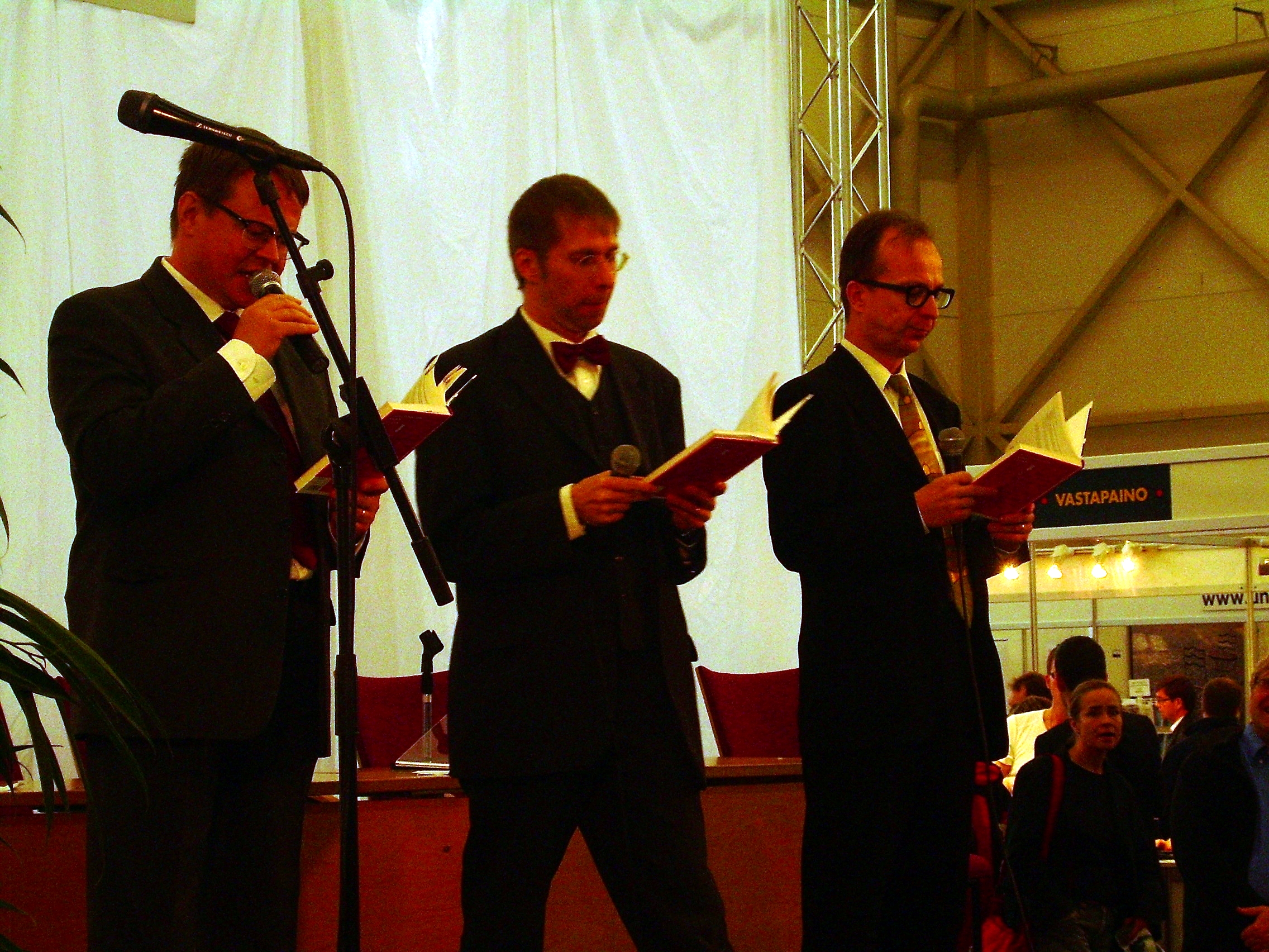 Finnish comedy group Alivaltiosihteeri at the Turku International Book Fair.